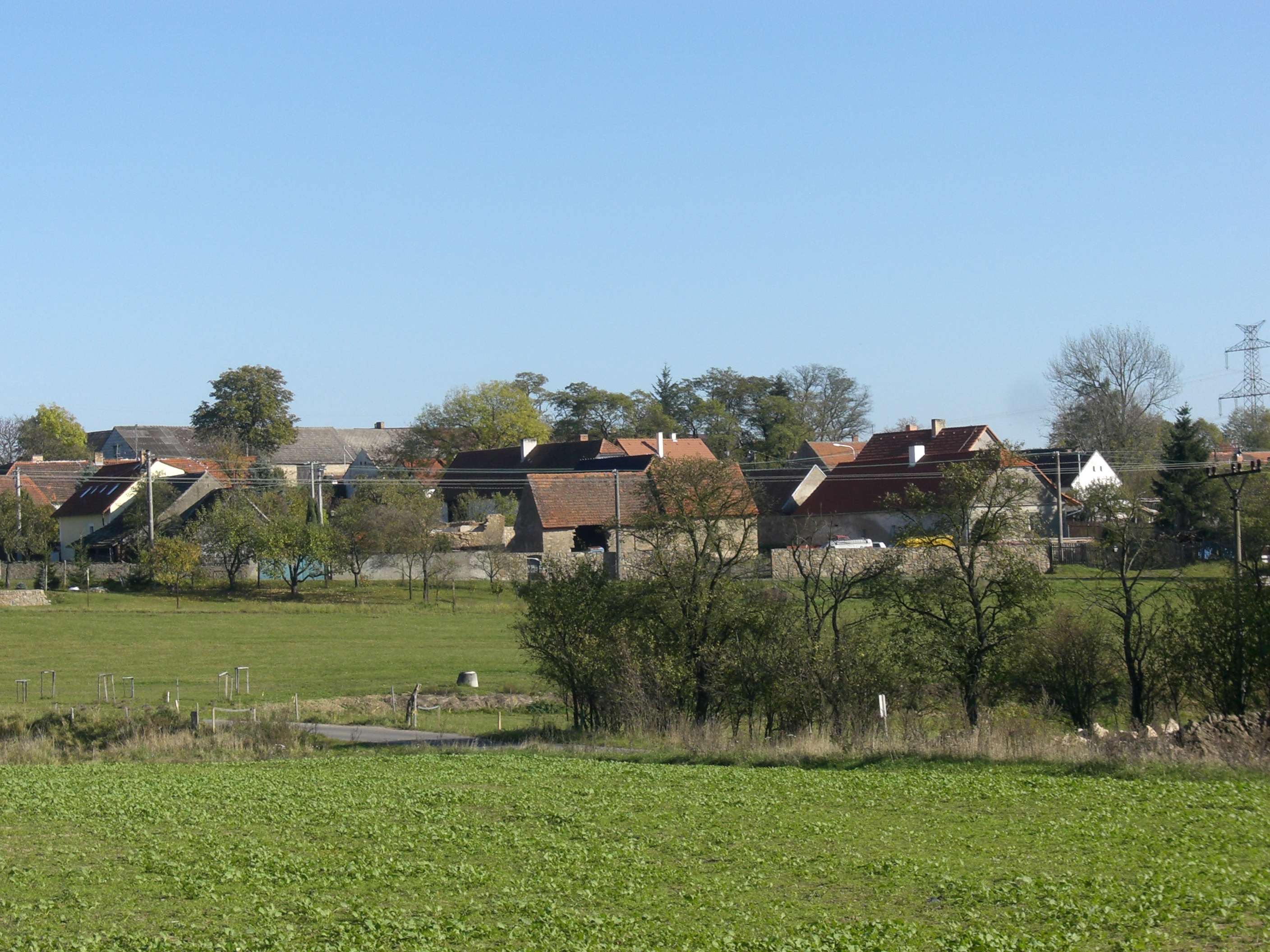 Boudy village near Písek, Czech Republic 49°26′52.627″N 14°2′7.752″E / 49.44795194°N 14.03548667°E